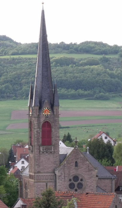 Church of St Vitus in Jettenbach